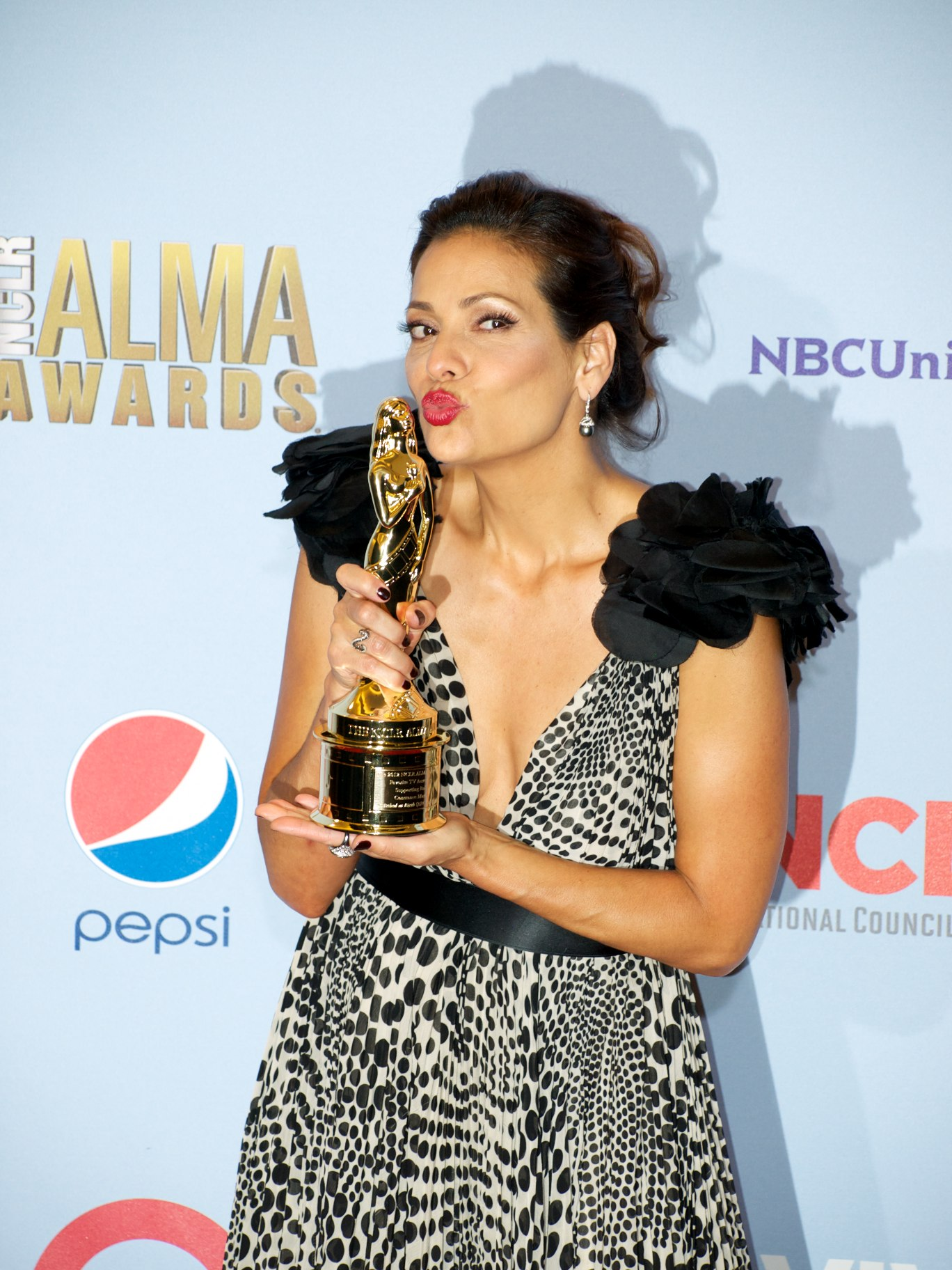 Constance Marie winner Alma Awards 2012